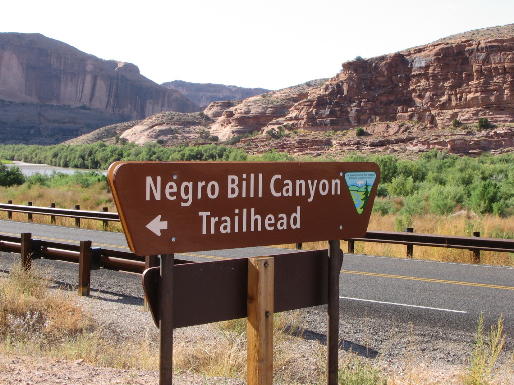 Sign at the entrance of Negro Bill Canyon, in southeast Utah.